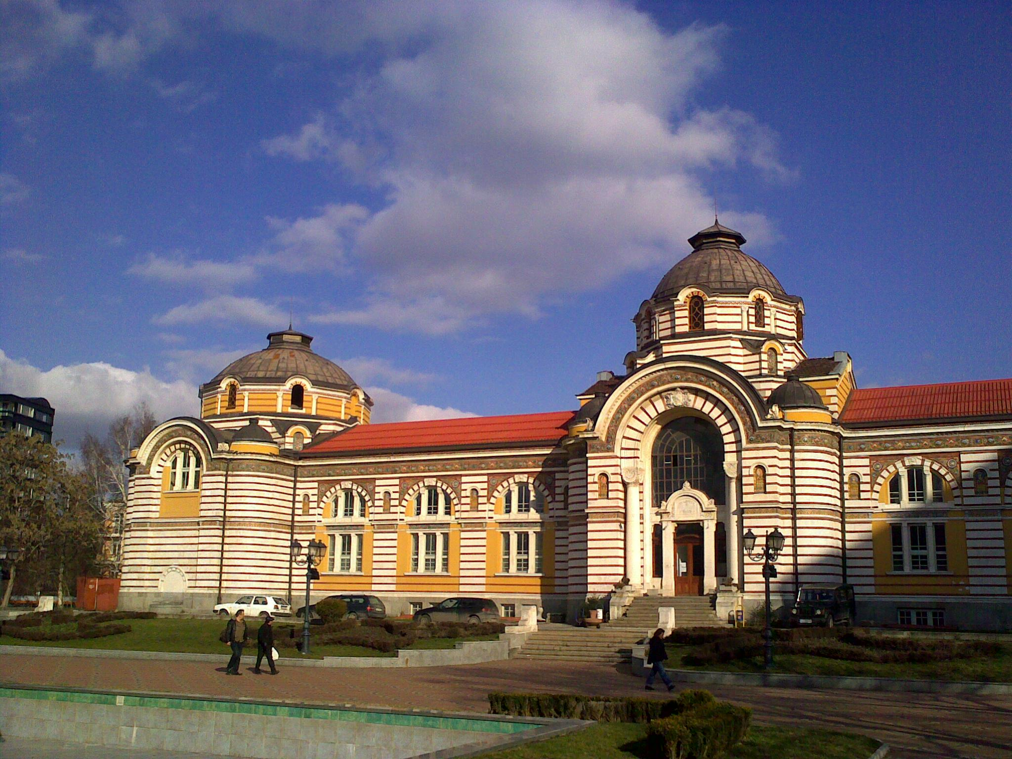 Sofia: Sofia Public Mineral Baths